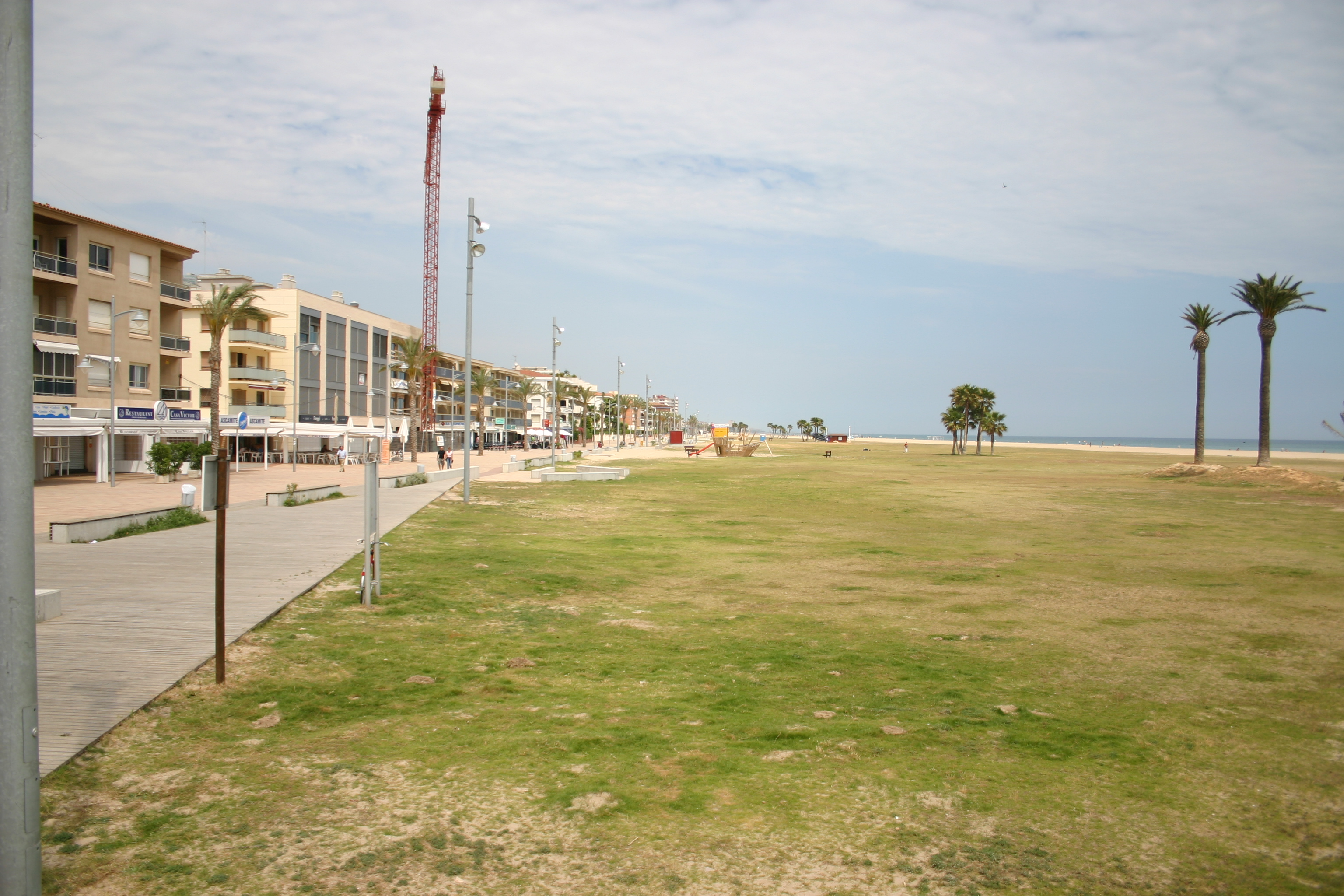 Coma-Ruga Beach, Vendrell, Catalonia, Spain. Google Maps